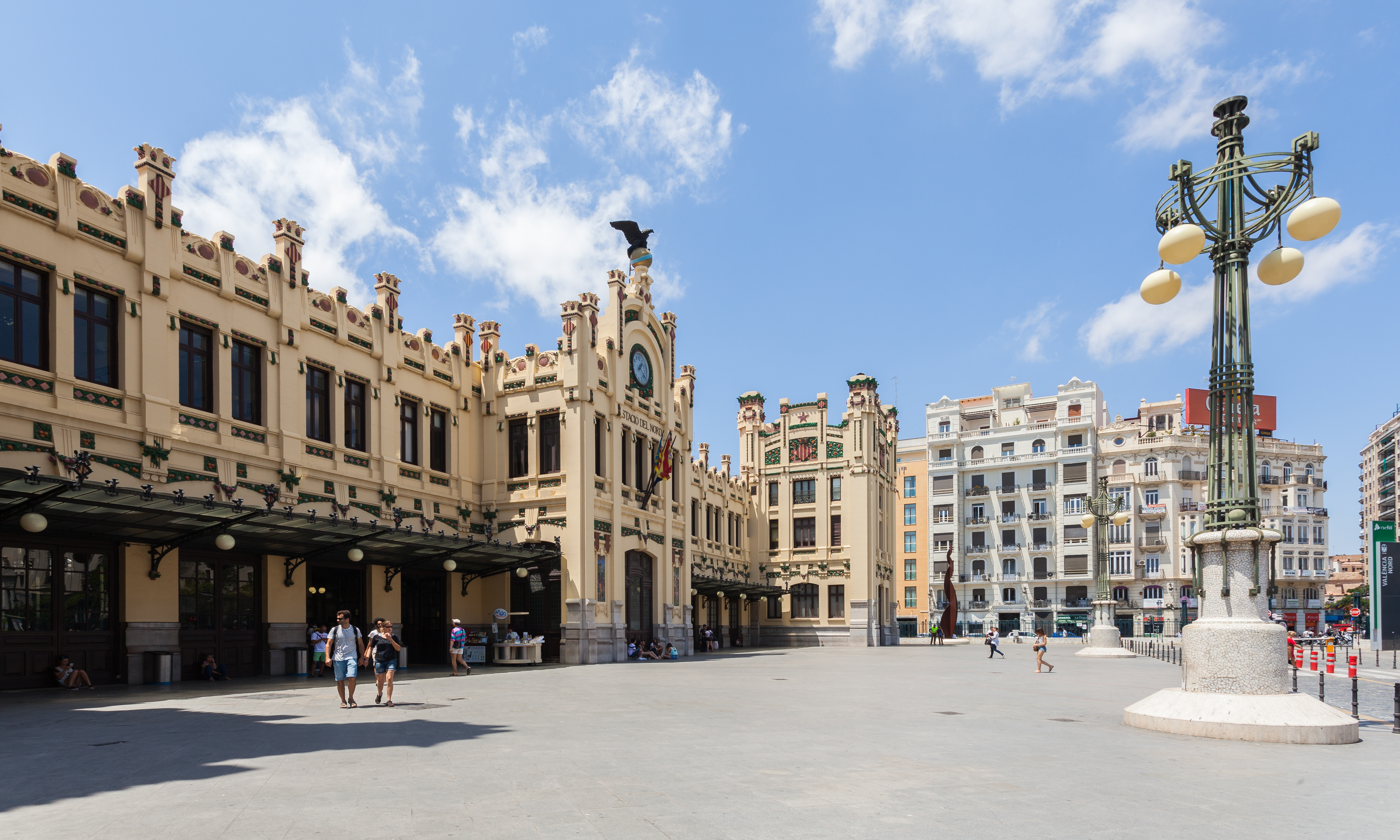 Station of North, Valencia, Spain